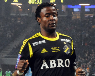 Kennedy Igboananike, forward of AIK Fotboll